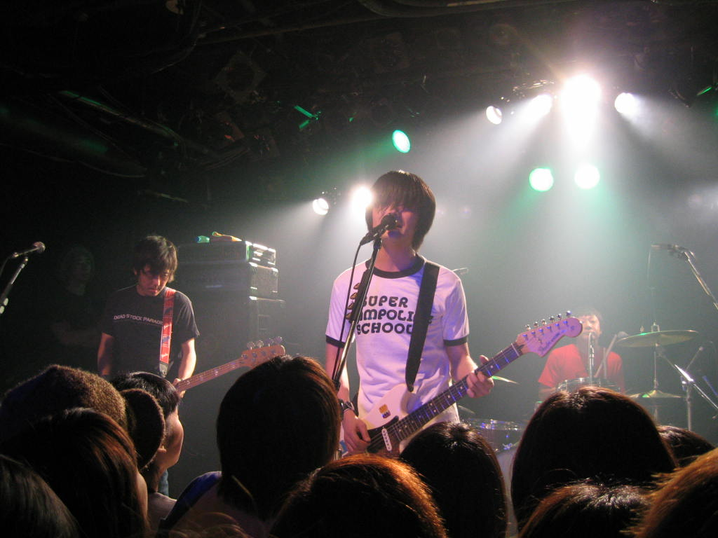 Photograph of the Japanese alternative rock band the pillows performing at Shibuya Club Quattro in Tokyo, Japan on December 31, 2003.